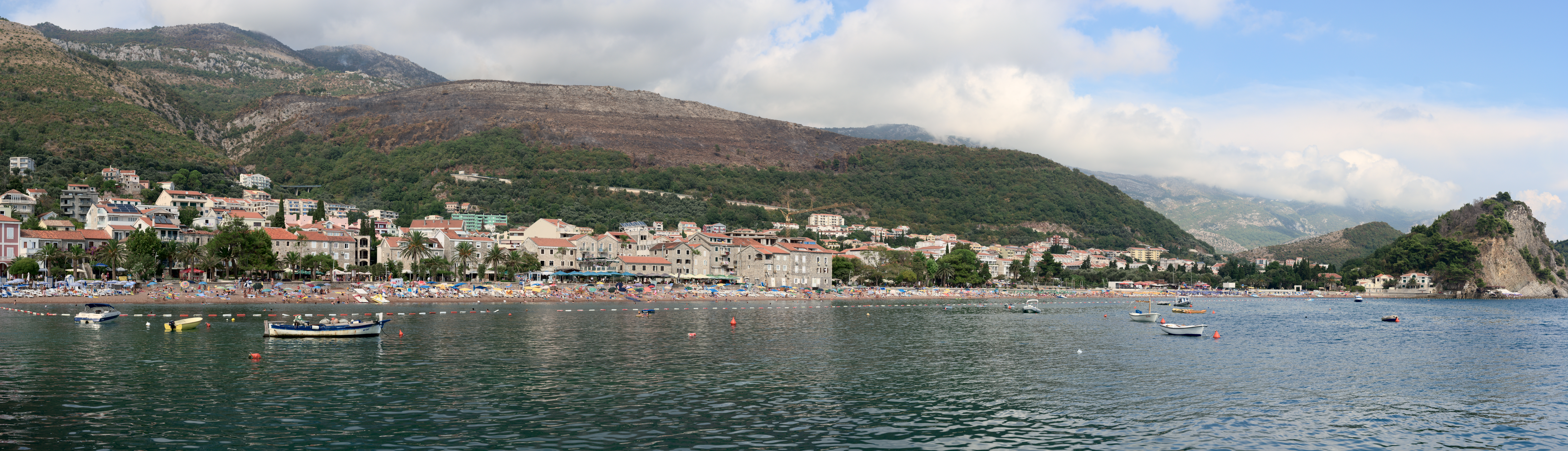 A view on the bay of Petrovac